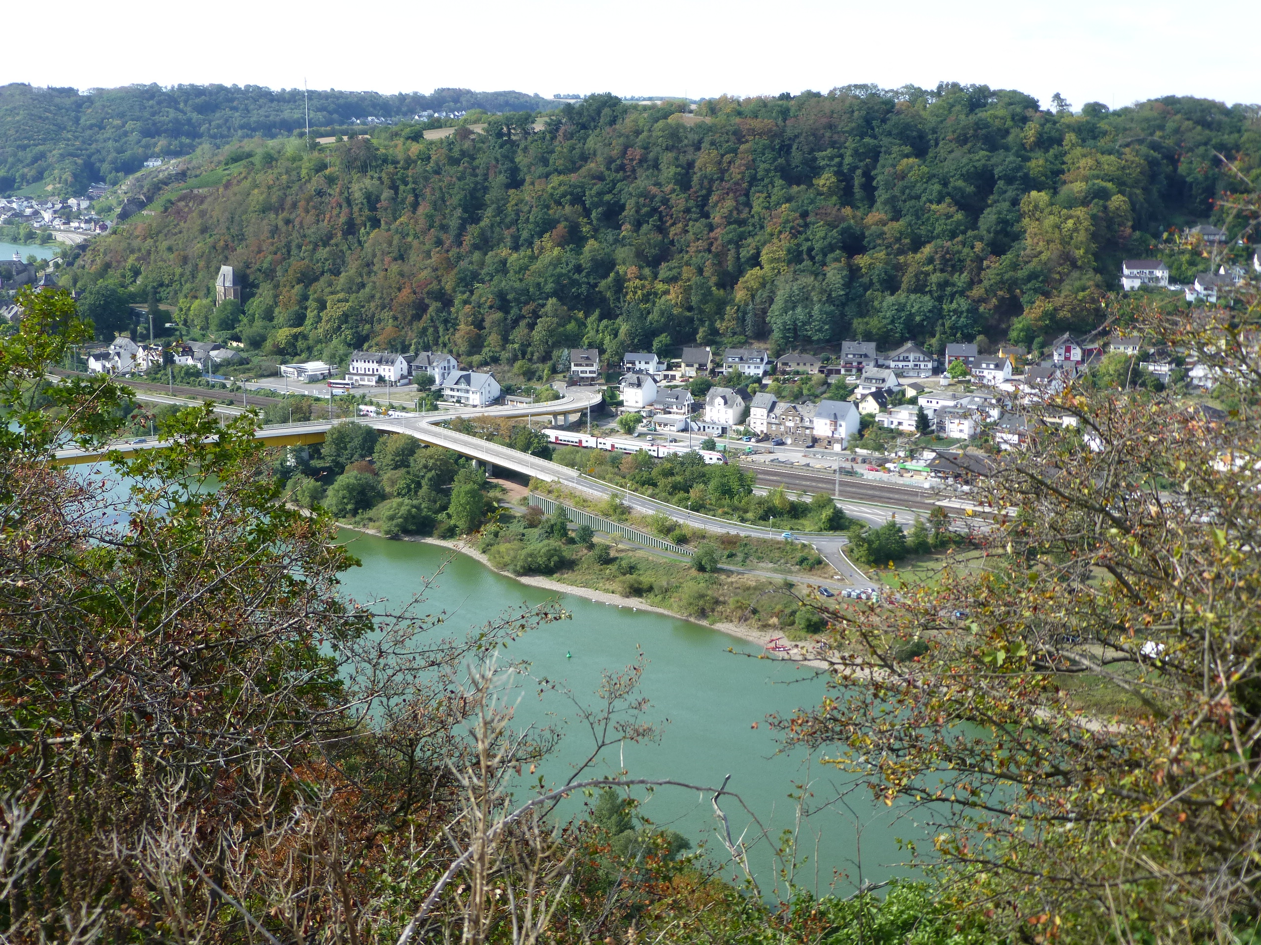 The Moselle at Gondorf, as zoomed from Rastplatz Glattlay on the B411.